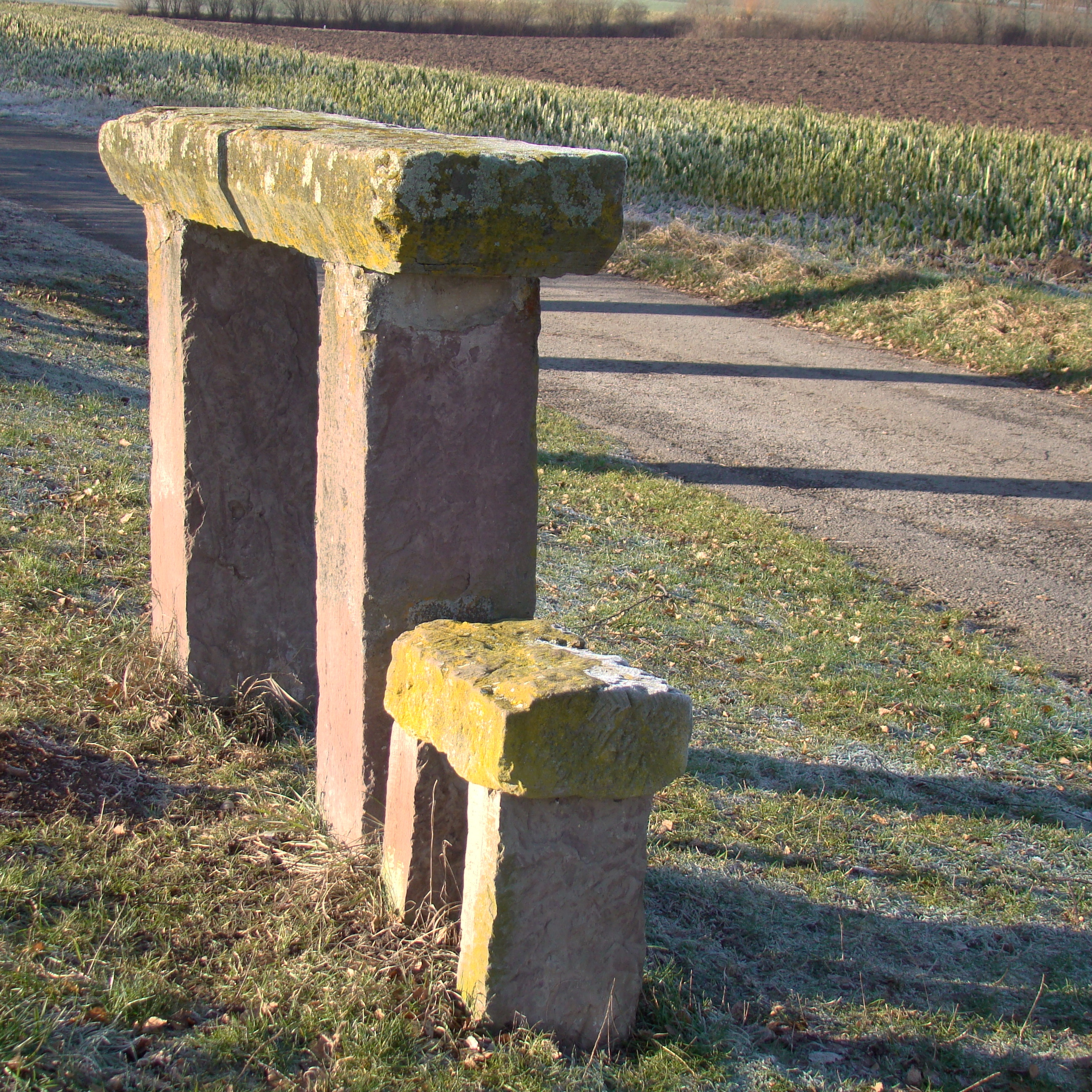 Stone rest bench in traditional style at the Rotenbergsträßle northwest of Vaihingen an der Enz-Horrheim